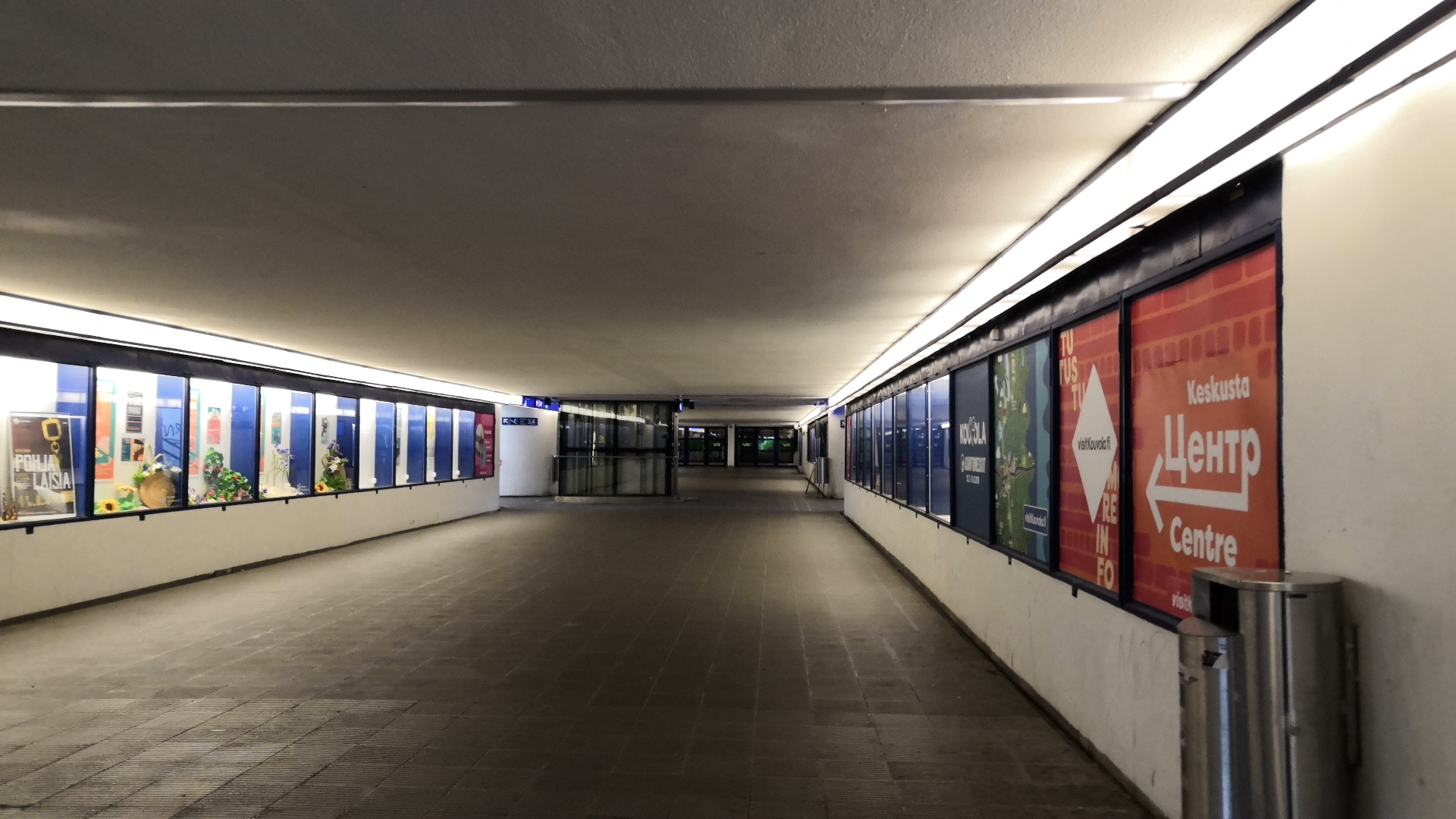 Kouvolan rautatieaseman tunneli